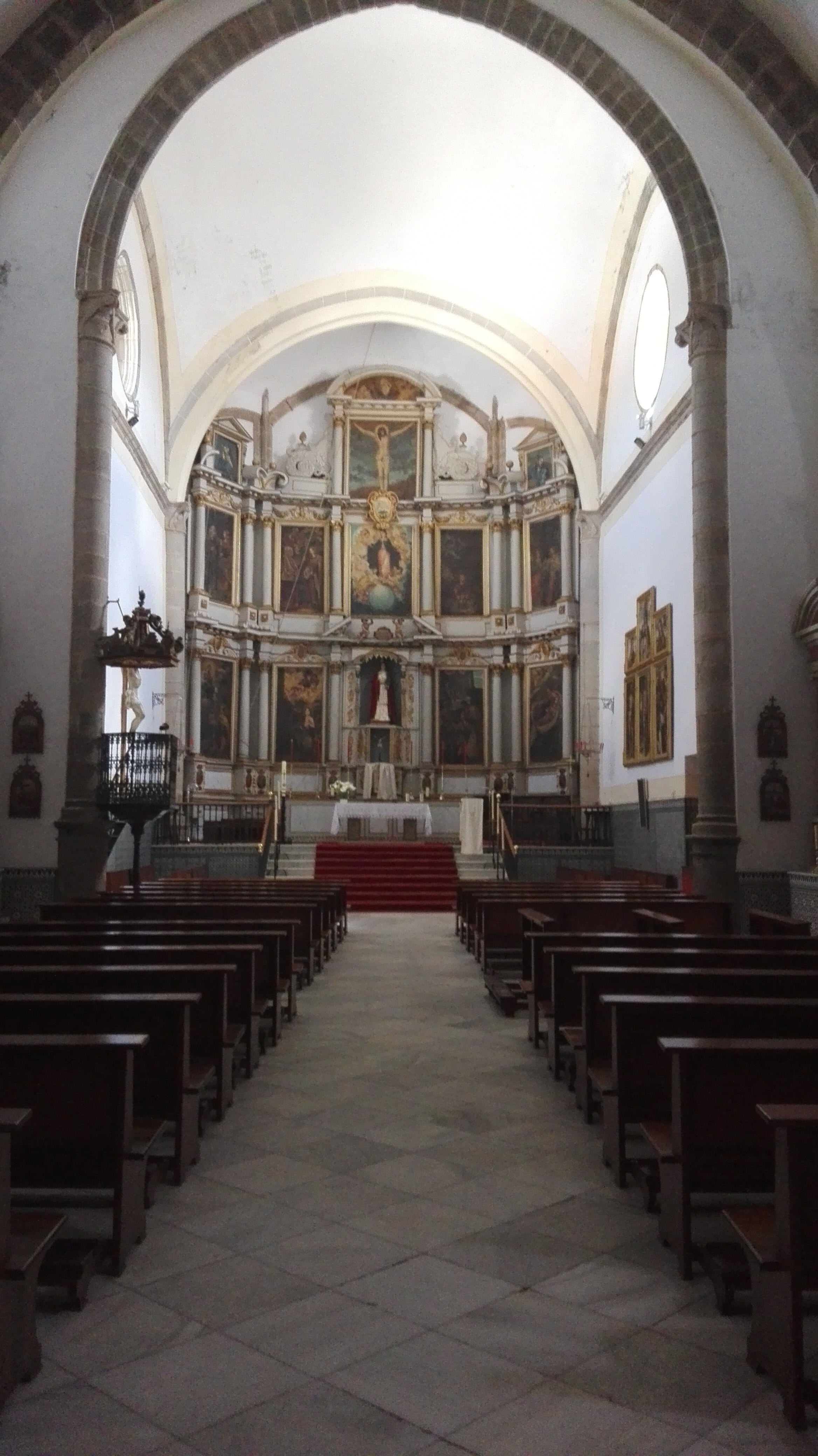 Iglesia Parroquial de Santa Catalina